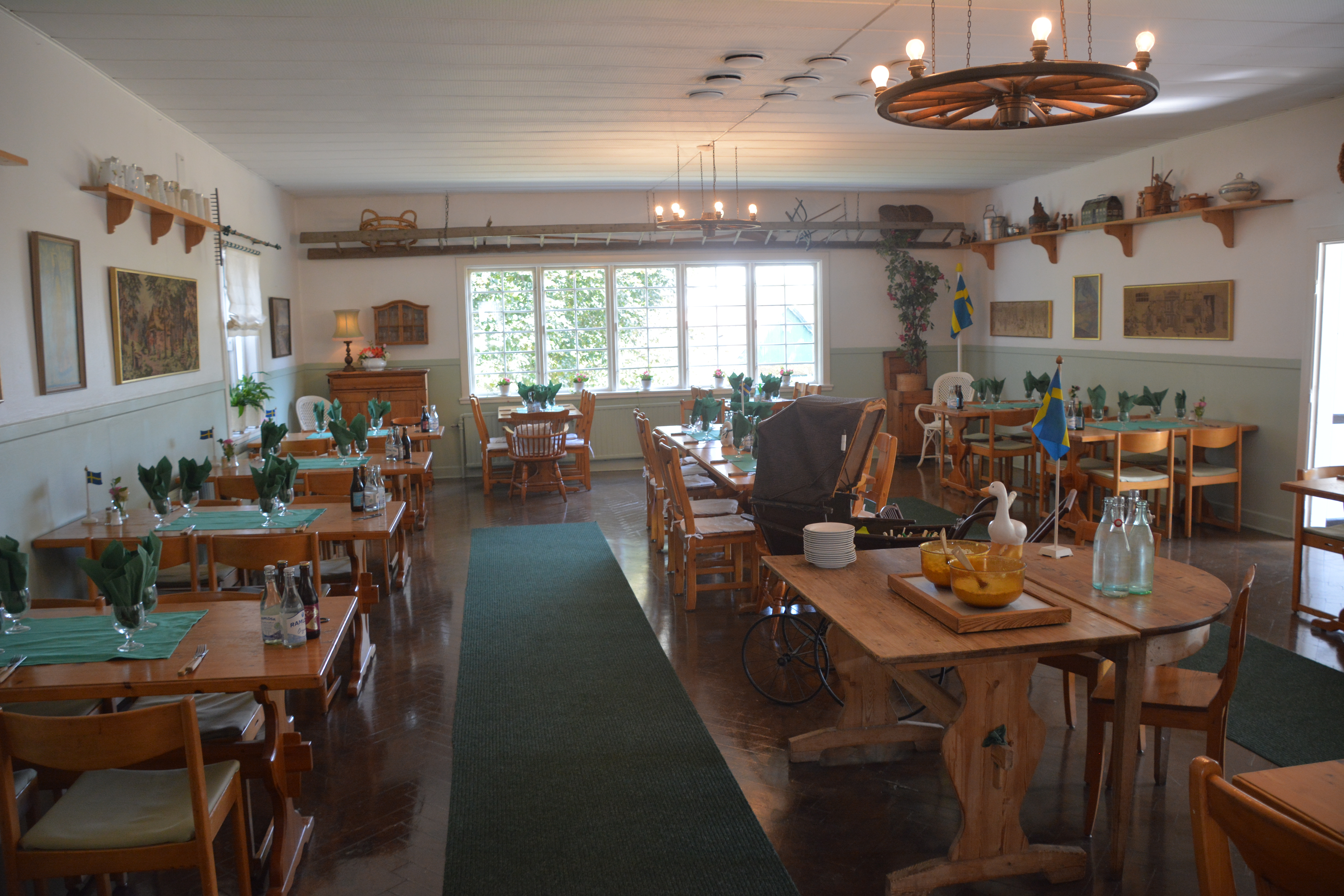 Hurva Gästis